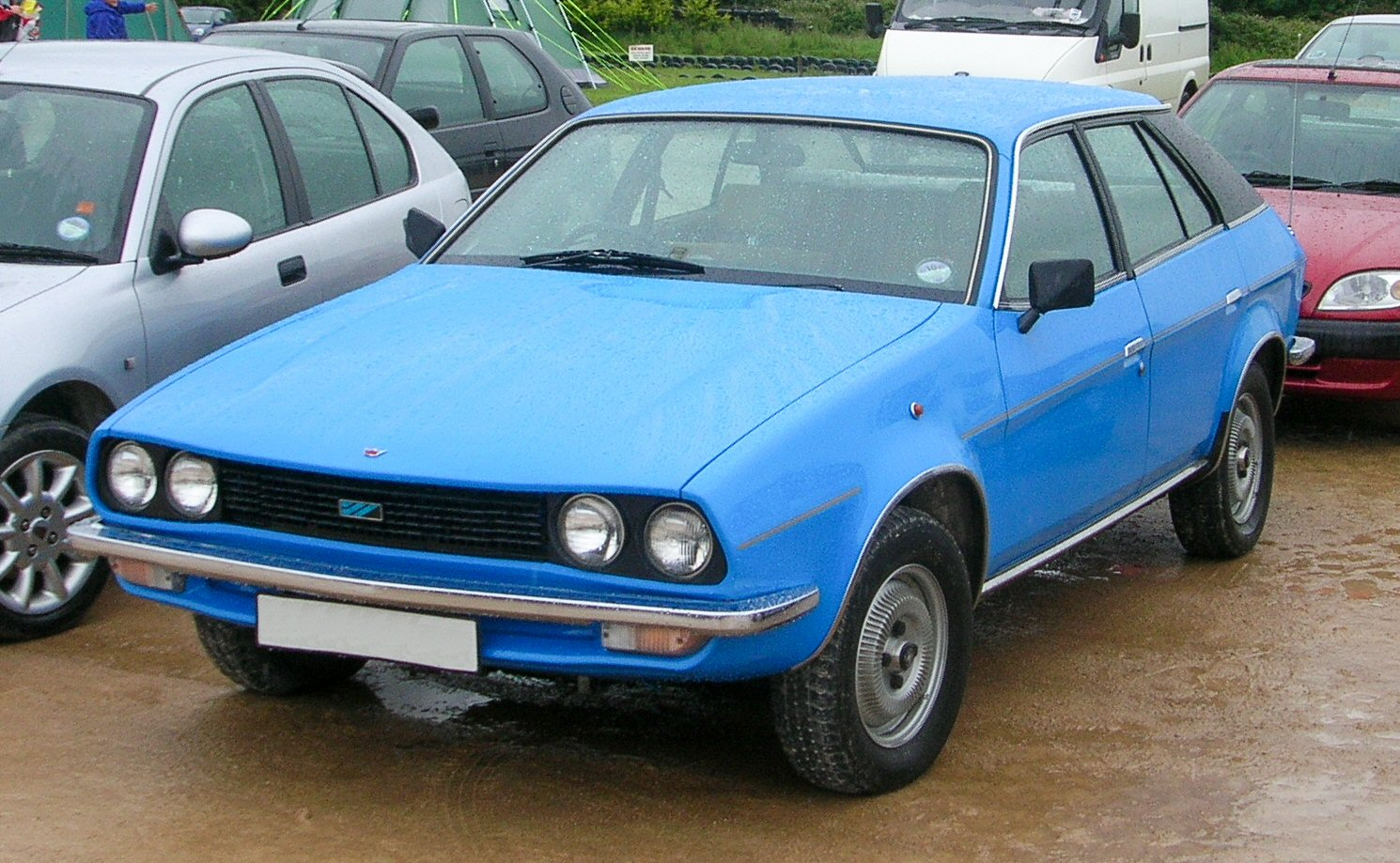 A 1979 British Leyland Princess 2 HL.